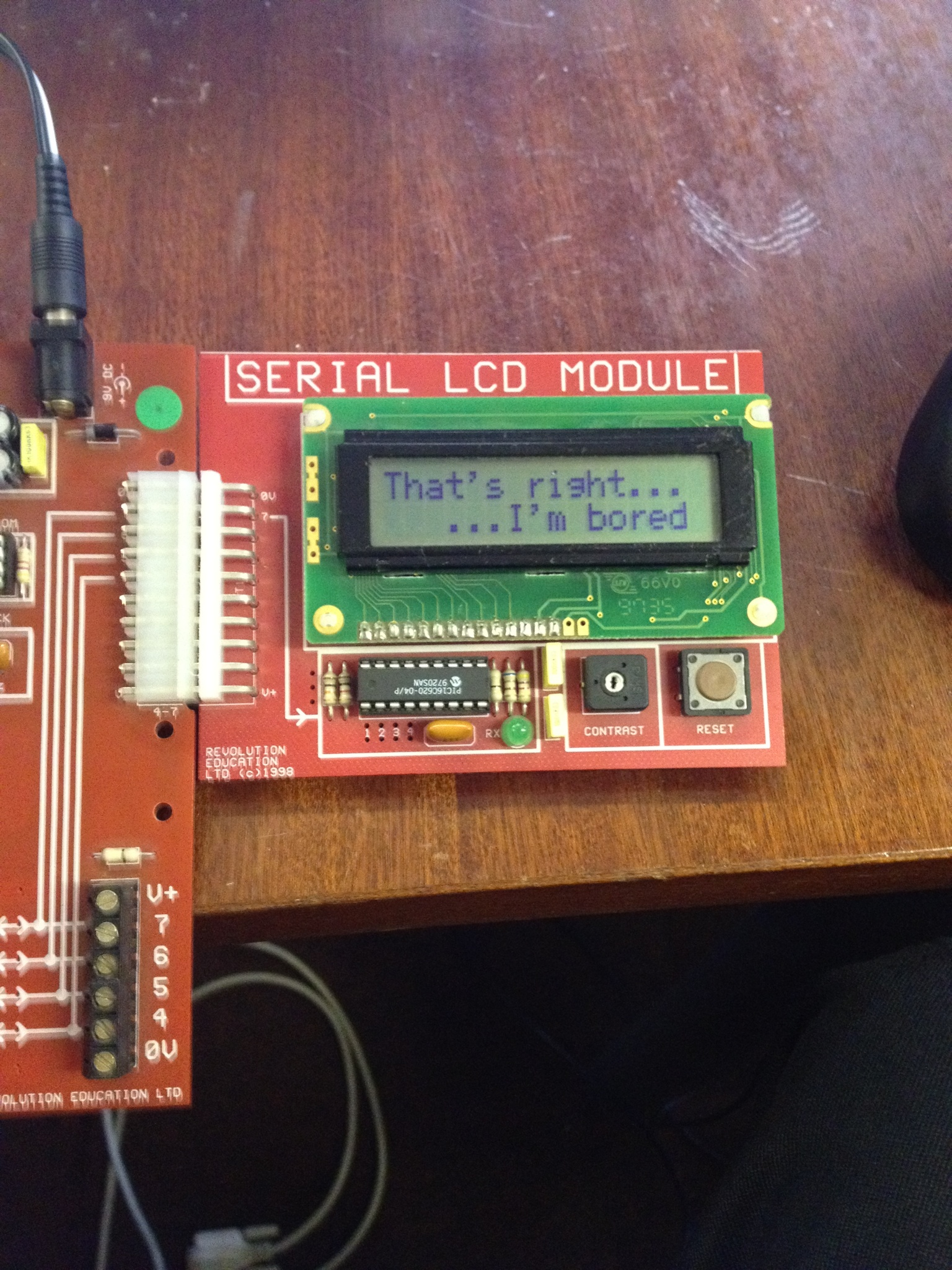 A Higher Technological Studies practical exercise.